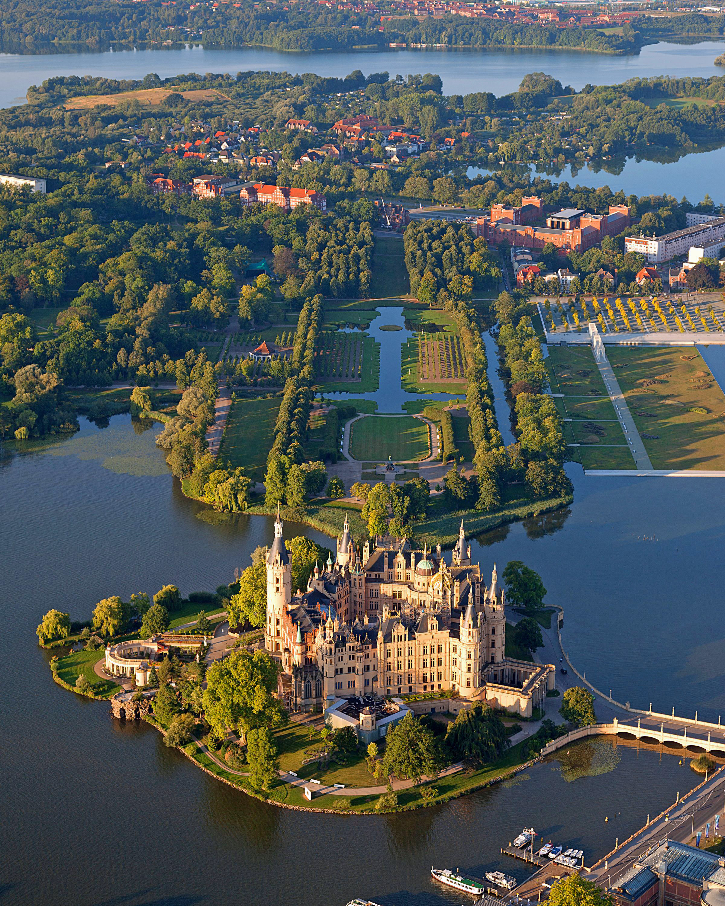 Schwerin Castle on its island, aerial view